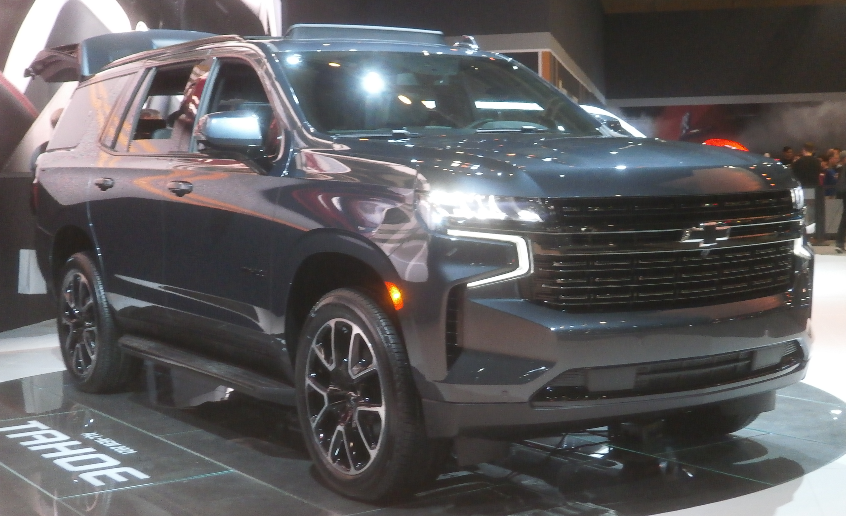 2021 Chevrolet Tahoe photographed at the 2020 Canadian International Auto Show